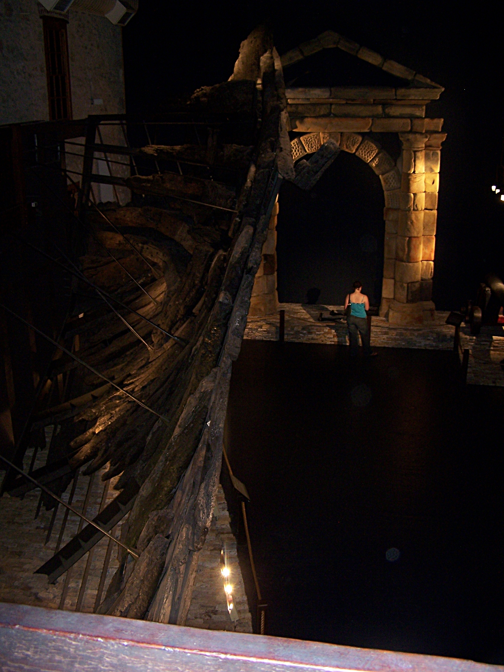 Batavia - wreck recovered section in the Shipwreck Galleries West Australian Maritime Museum Fremantle WA